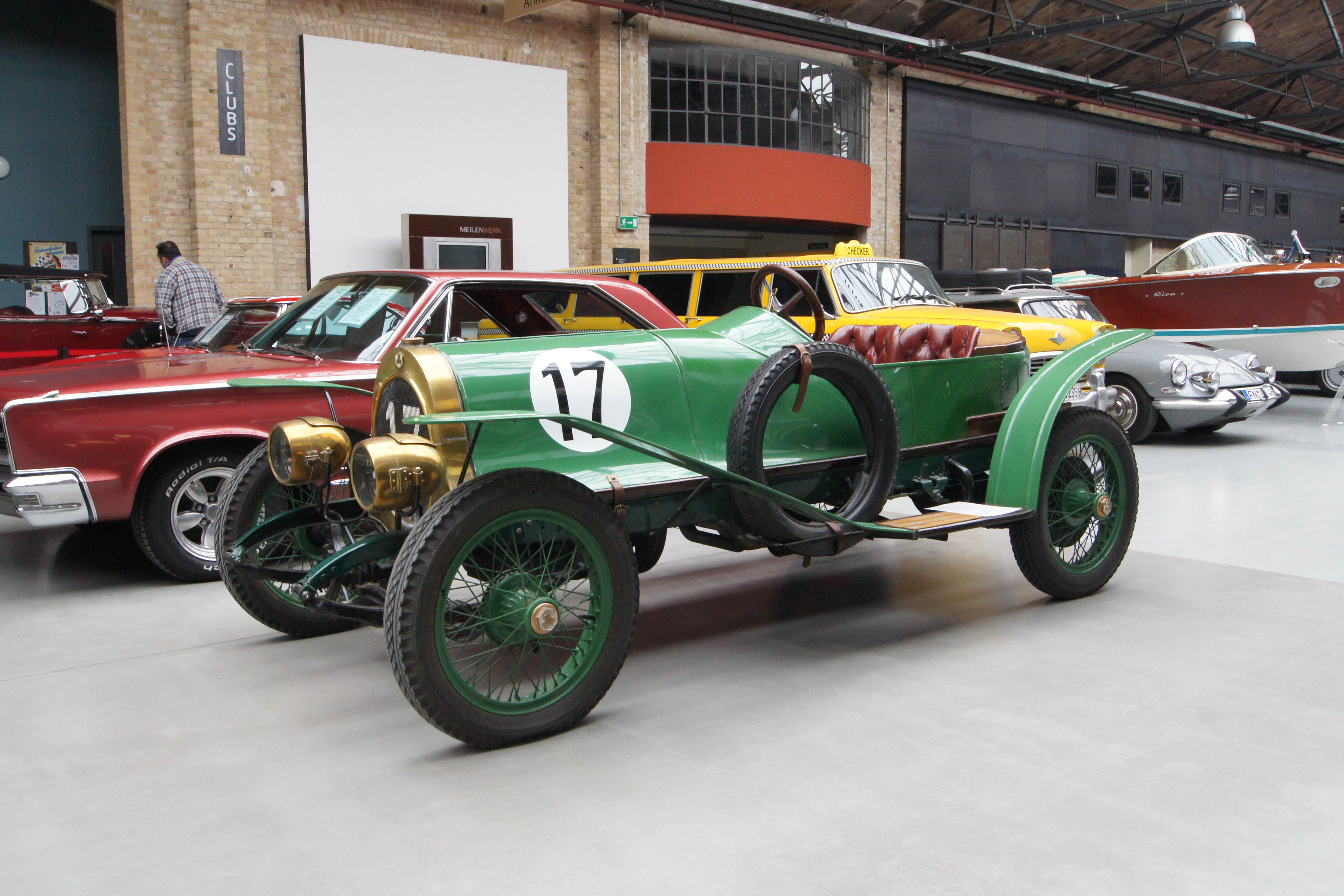 NAG race car of 1913 in Berlin Plötzensee (2010)